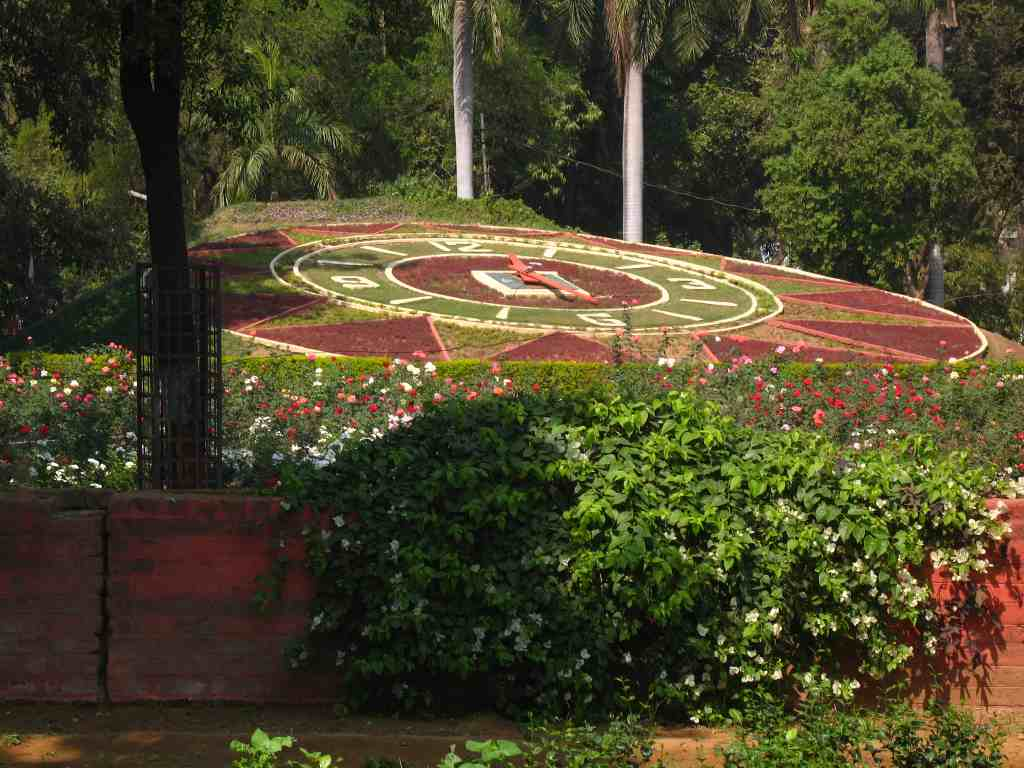 Sayaji Baug Floral Clock. The floral clock was the first of its kind in the state. It consists of an hour, minute and seconds hand that move on the 20 ft (6.1 m) diameter dial. The machinery moving the clock is underground, giving the clock a natural look.